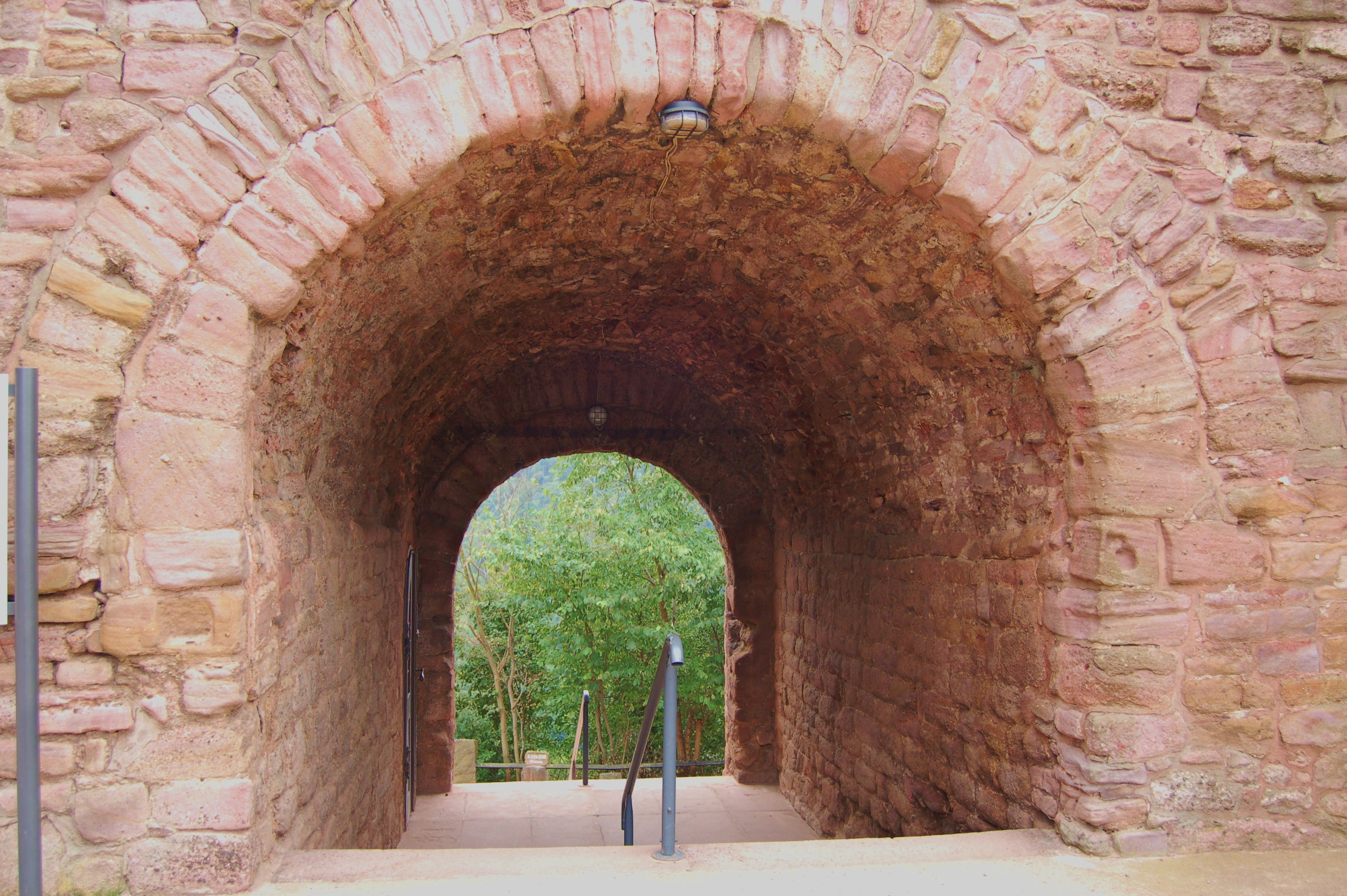 historical gate "Erfurter Tor", Castle Kyffhausen